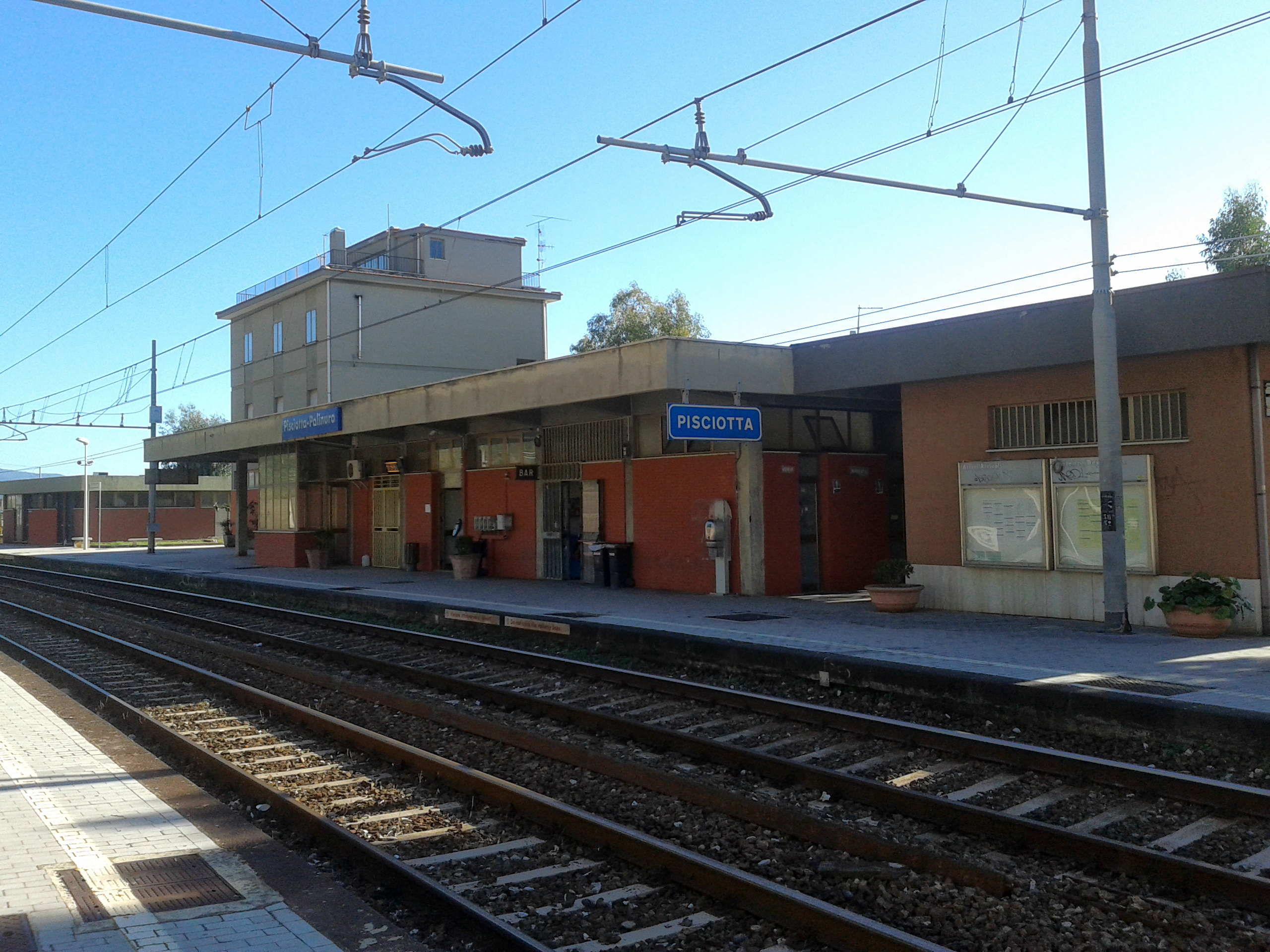 View of tracks 1 and 2 of the railway station of Pisciotta-Palinuro (SA) Italy